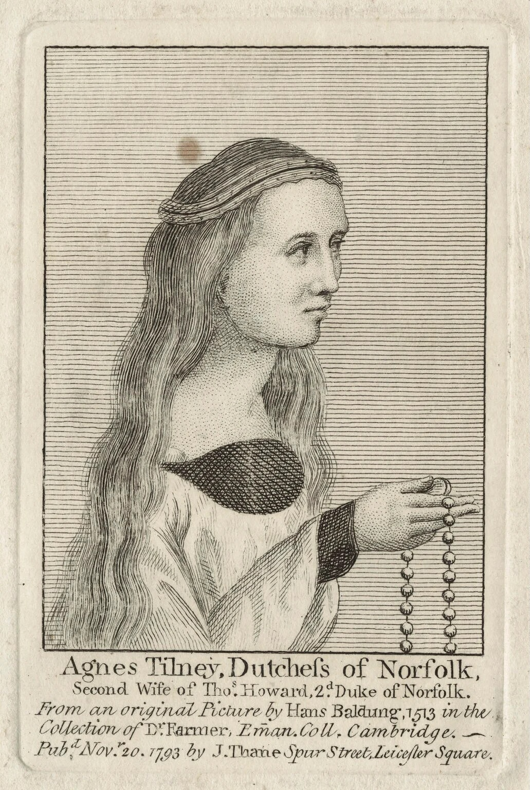 Agnes Howard (née Tilney), Duchess of Norfolk (before 1478-1545) published by John Thane line engraving, published 20 November 1793 NPG D24097